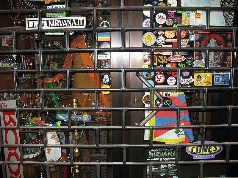 Head Shop in Firenze (Florence, Italy)